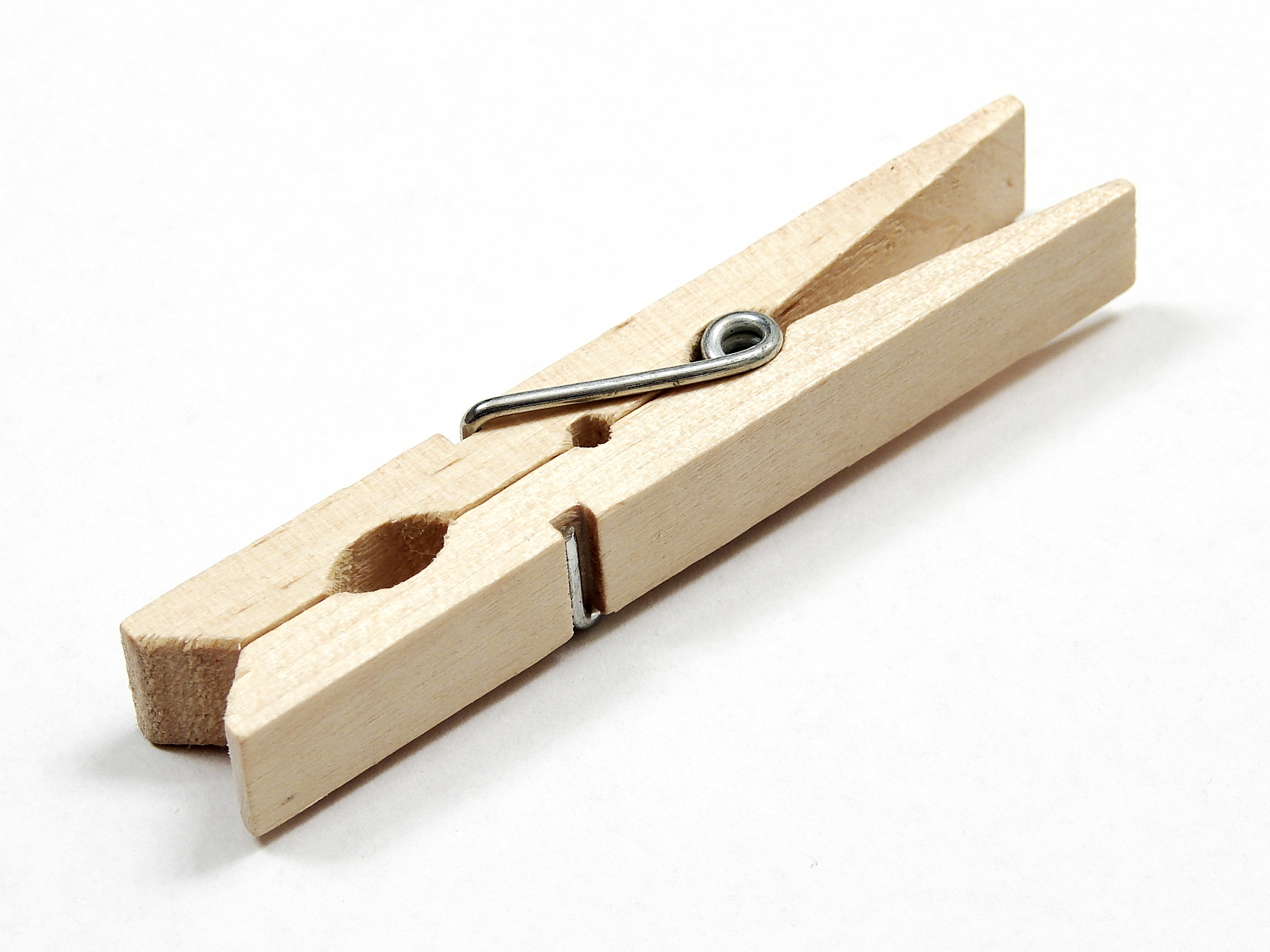 Wooden spring-type clothespin.